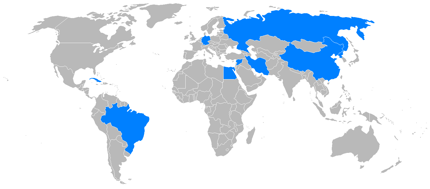 Operators of Tupolev Tu-204. Blue for countries, whose airlines placed an order for that aircraft, red for countries, whose airlines already using it. Originally by Dzerod from Russian wikipedia, updated by Dmitry-spb.